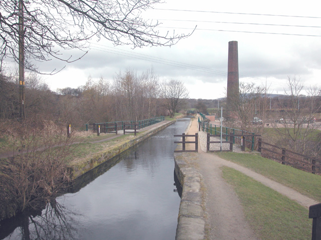 Feeder aqueduct This aqueduct carries the feeder for Elton reservoir SD7809 over the river Irwell from the upstream weir.